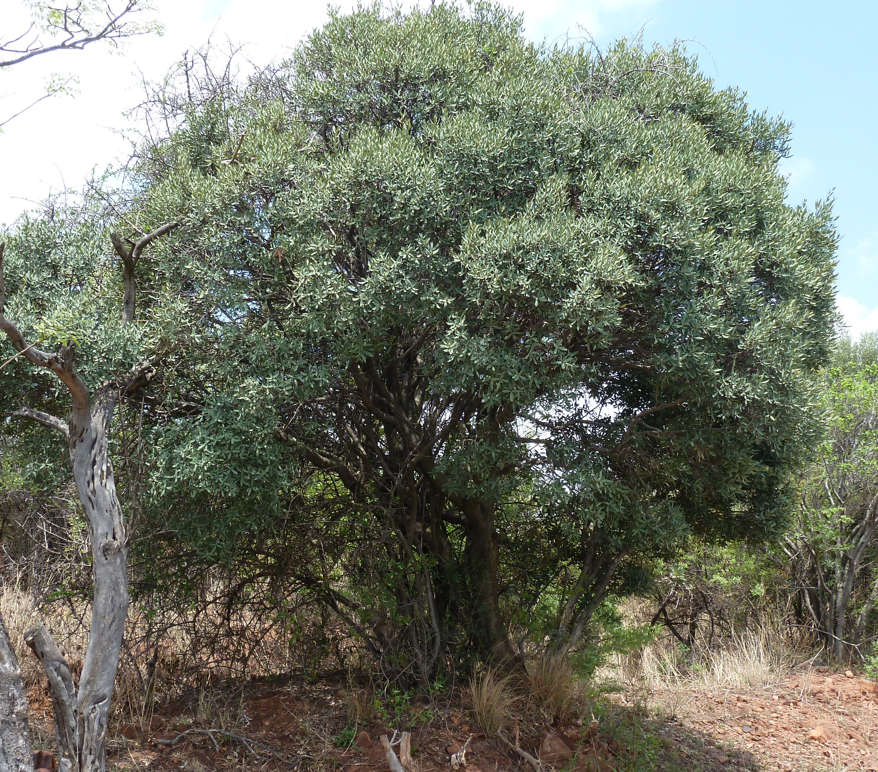 Blue Guarri at Schanskop, Pretoria